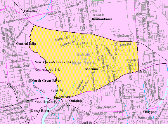 U.S. Census 2000 reference map for Bohemia